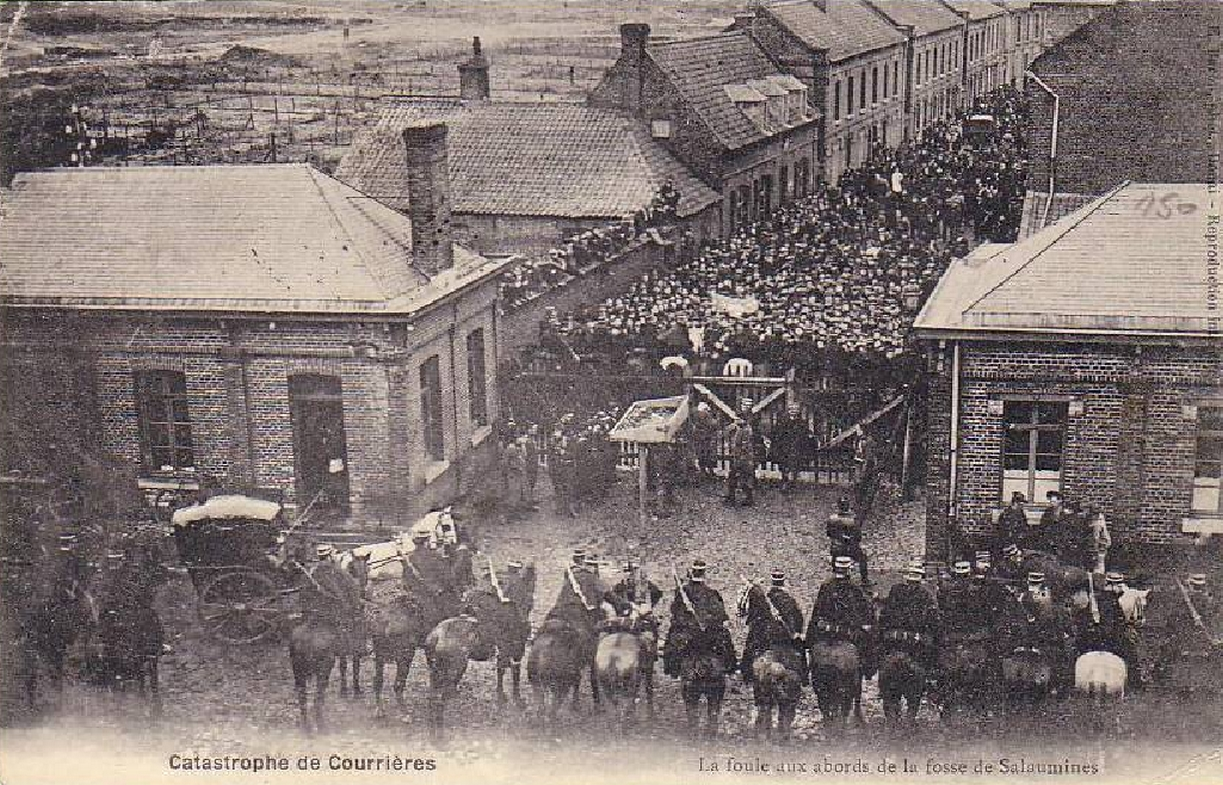 Courrières mine disaster, the tenth march 1906, in the towns of Billy-Montigny, Sallaumines, Méricourt and Noyelles-sous-Lens.